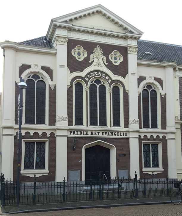 The chapel 'Preach the Gospel', built by Rev. Jan van Dijk Mzn. in 1880-81, photographed in 2016.